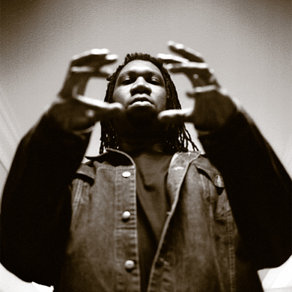 backstage west coast 2002